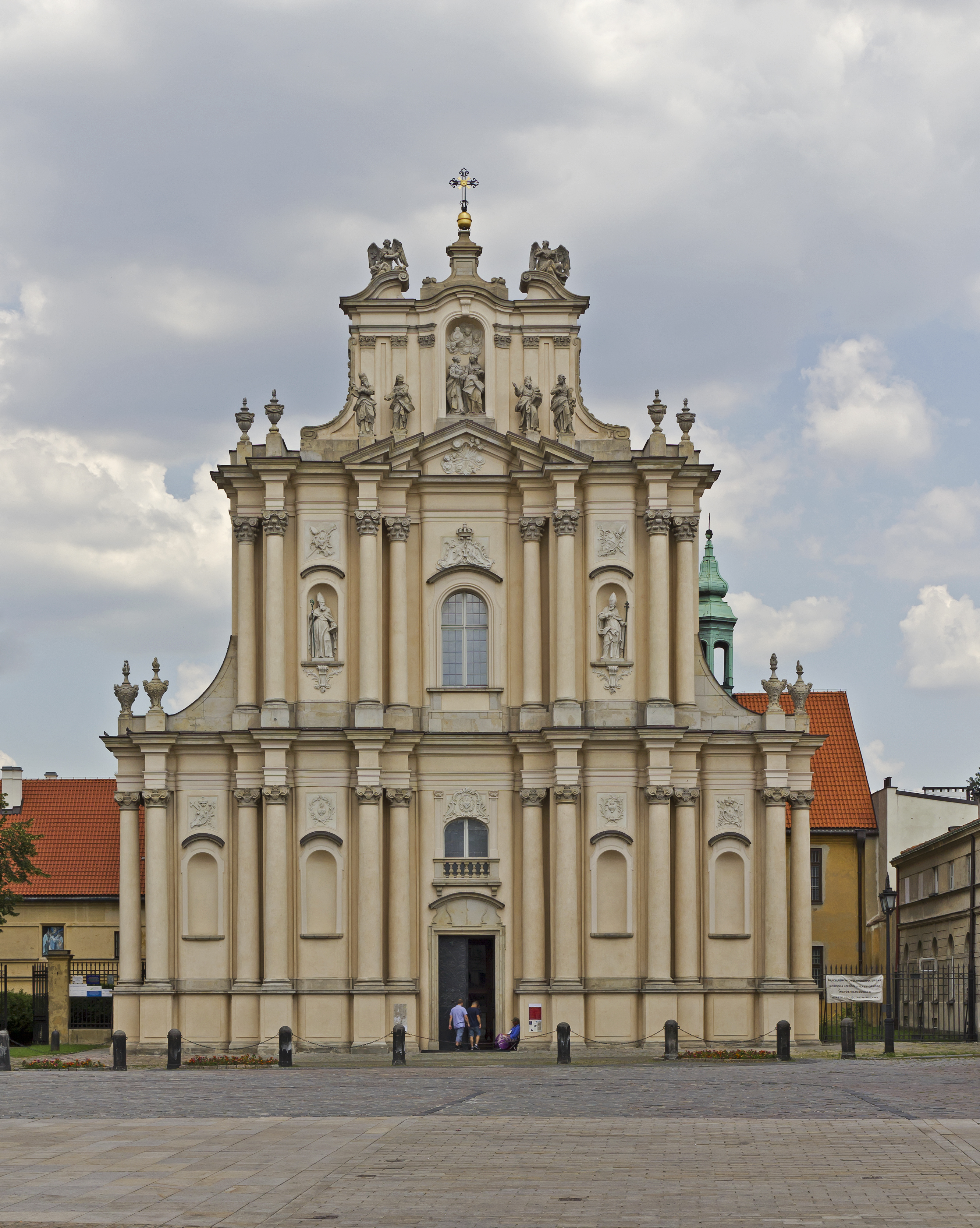 Visitation Order Church in Warsaw (Poland)